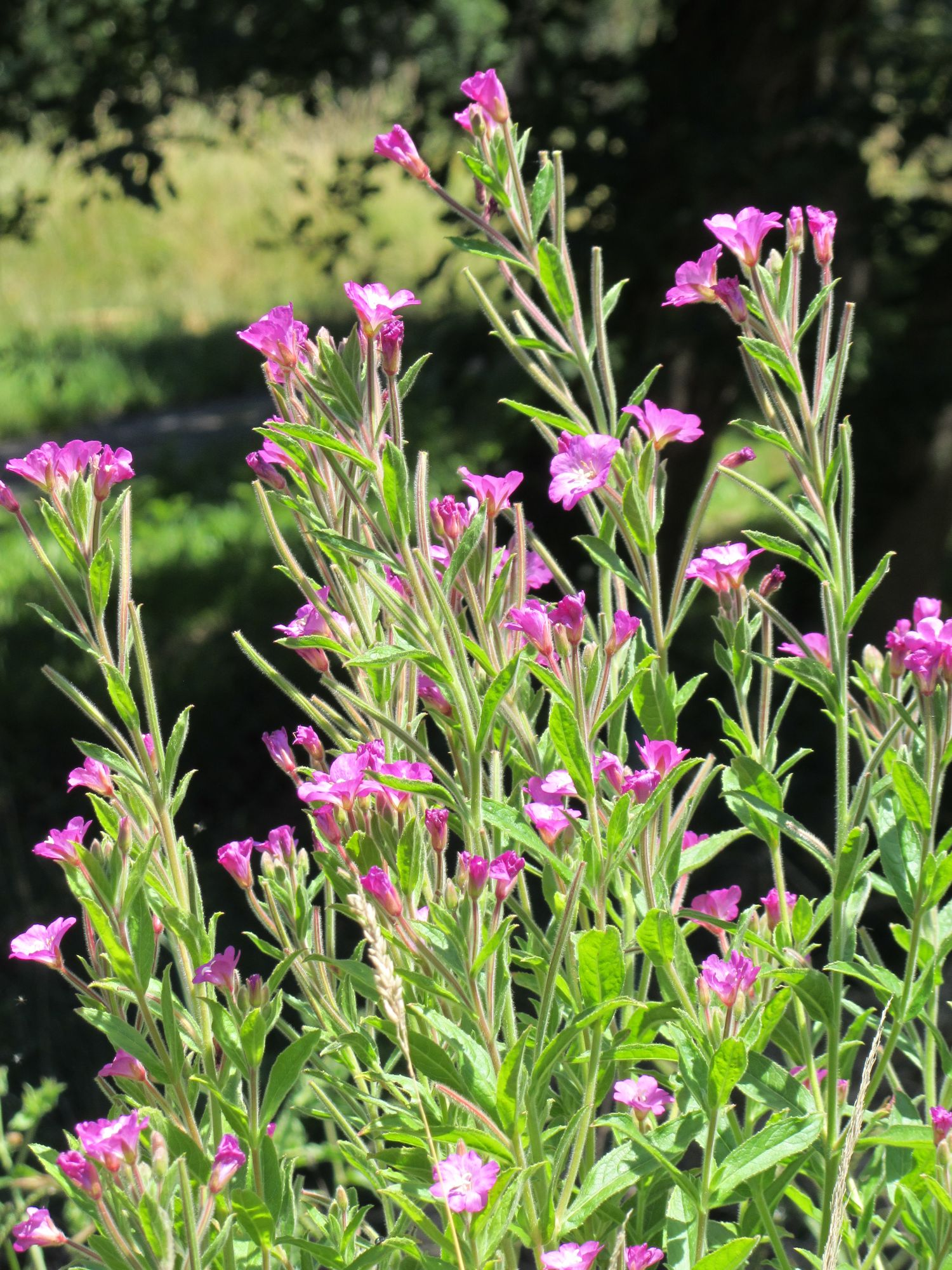 Great willowherb, Epilobium hirsutum. This photograph was taken on 2011-06-25 at Berango in the Bizkaia province of the Basque Country (Europe), using a Canon PowerShot SX230 camera.The original size was 3000x4000 pixels, it was reduced to the present size (1500x2000 pixels) using the IrfanView freeware program.